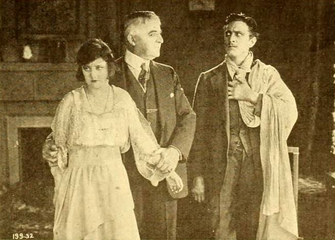 Still from the American film Here Comes the Bride (1919) with Faire Binney, Frank Losee, and John Barrymore, on page 733 of the February 8, 1919 Moving Picture World.